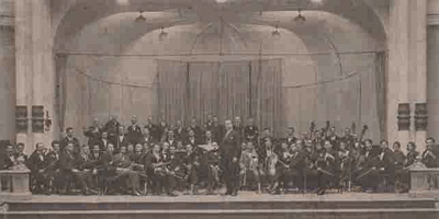 Rotterdams Philharmonisch Orkest at the Great Hall of De Doele Concert House in Rotterdam; art director Willem Feltzer (1874–1931) stands in the centre.